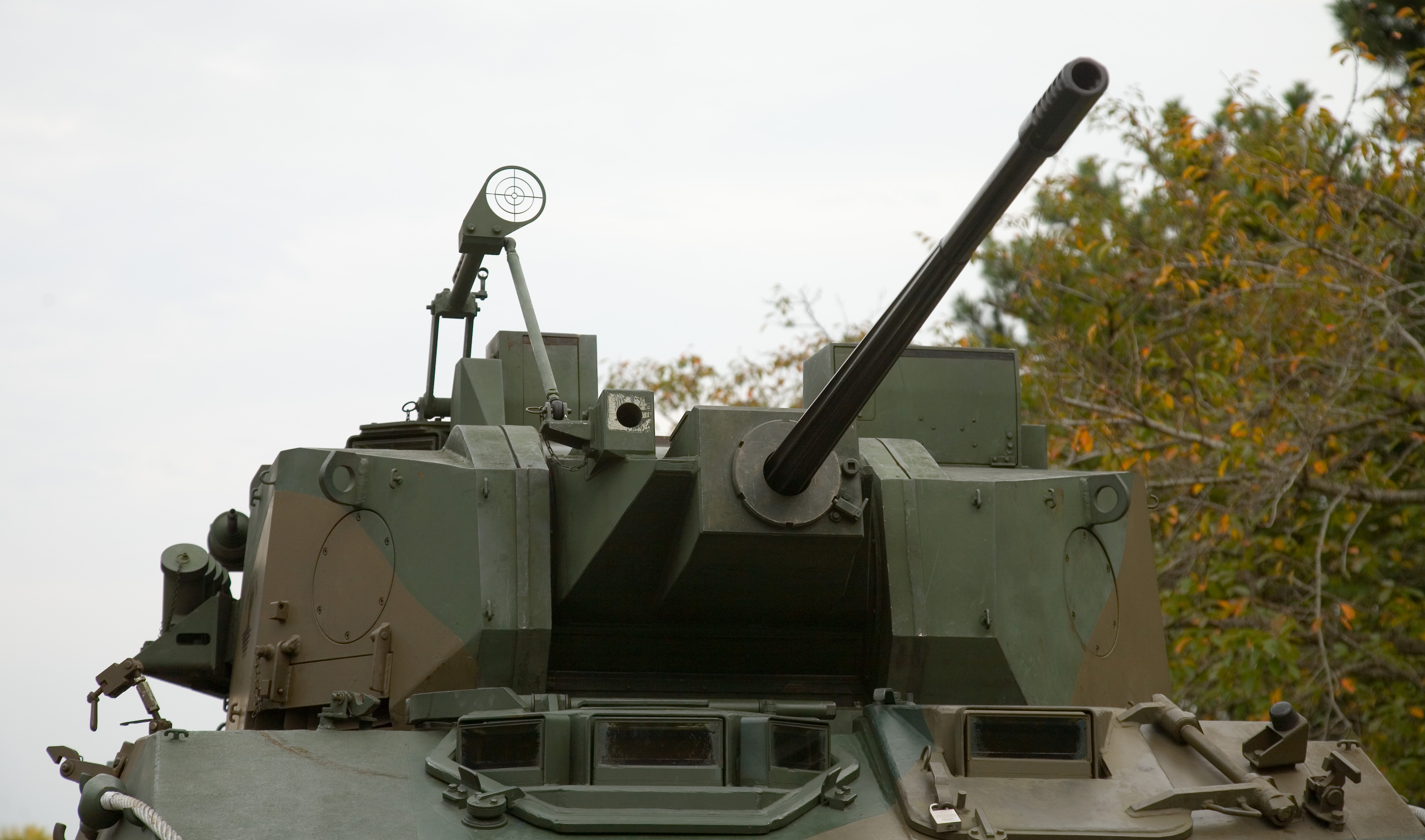 A Type 87 Scout/Recon. vehicle on display at the JGSDF Ordnance School in Tsuchiura, Kanto, Japan.